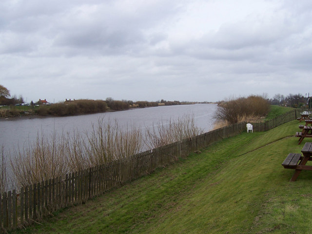 River Trent at Susworth. Picture taken looking North from a position close to the Jenny Wren Inn. The houses on the West bank are at South Ewster. The Trent is not very well developed for leisure purposes. I suspect that if this was the Severn there would a landing stage to cater for the boating fraternity.